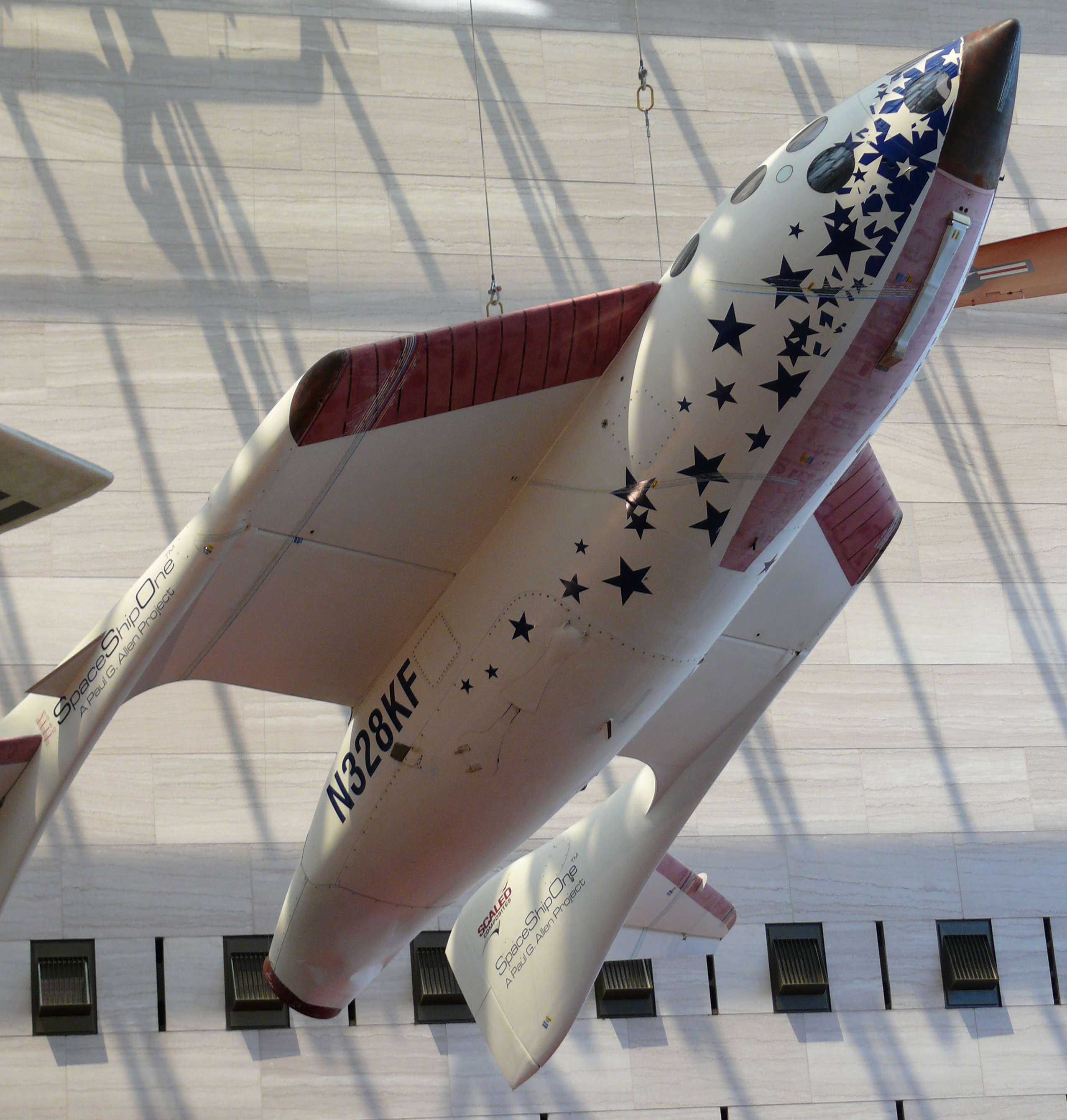 SpaceShipOne in the National ,Air and Space Museum, Washington DC SpaceShipOne is a spaceplane that completed the first privately funded human spaceflight on June 21, 2004.